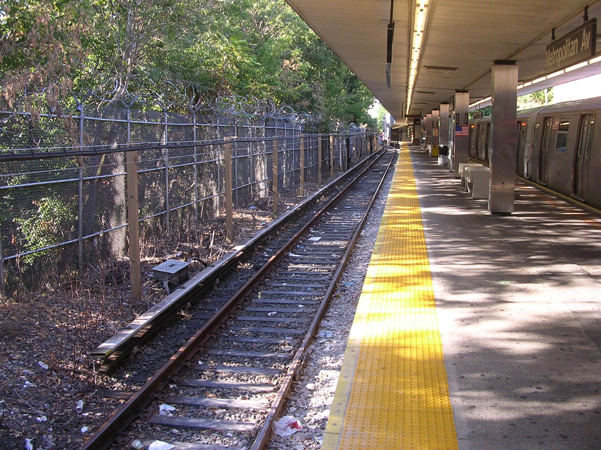 Track 1 at Metropolitan Avenue station.